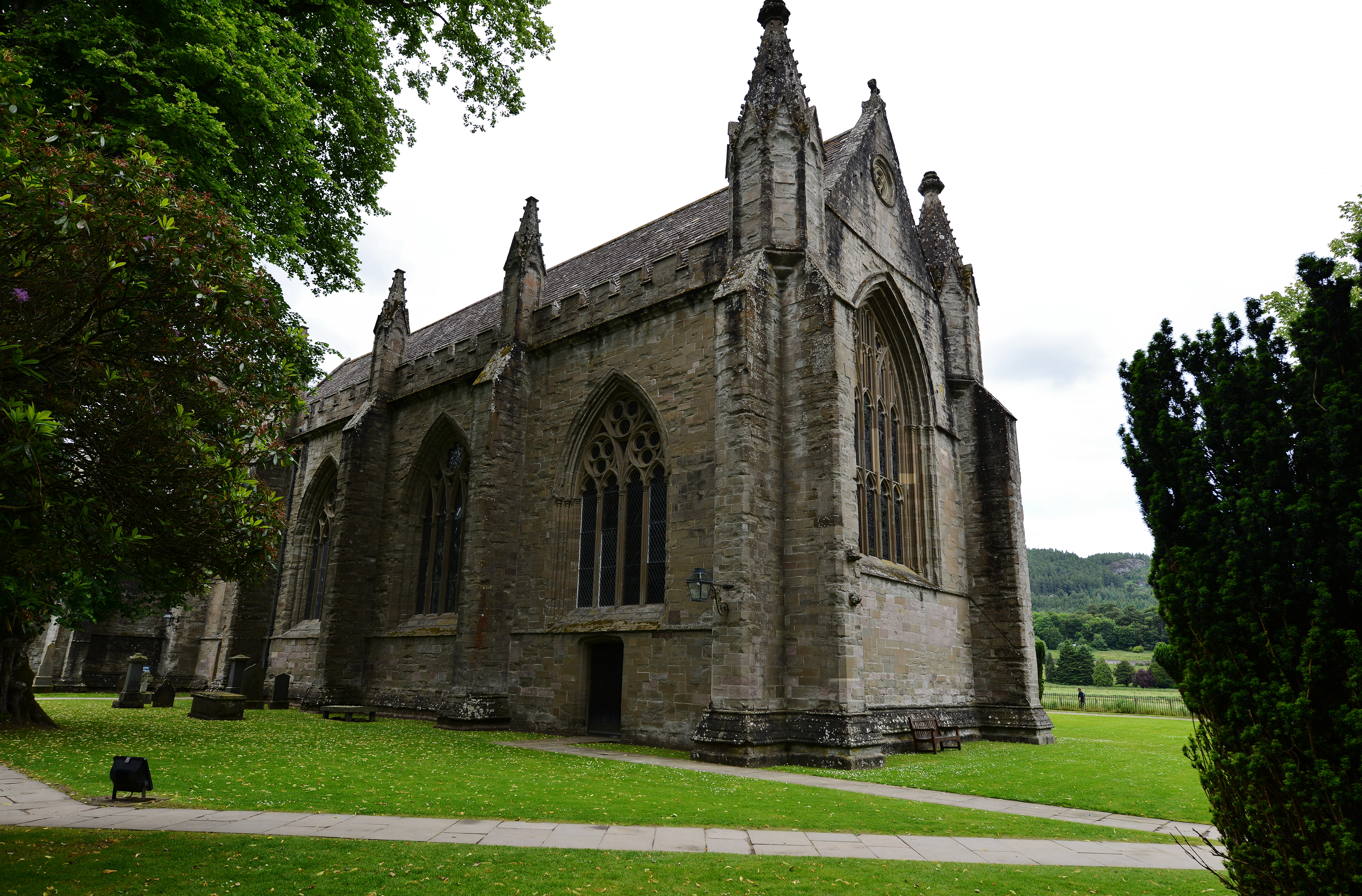 Photo by Michael Garlick